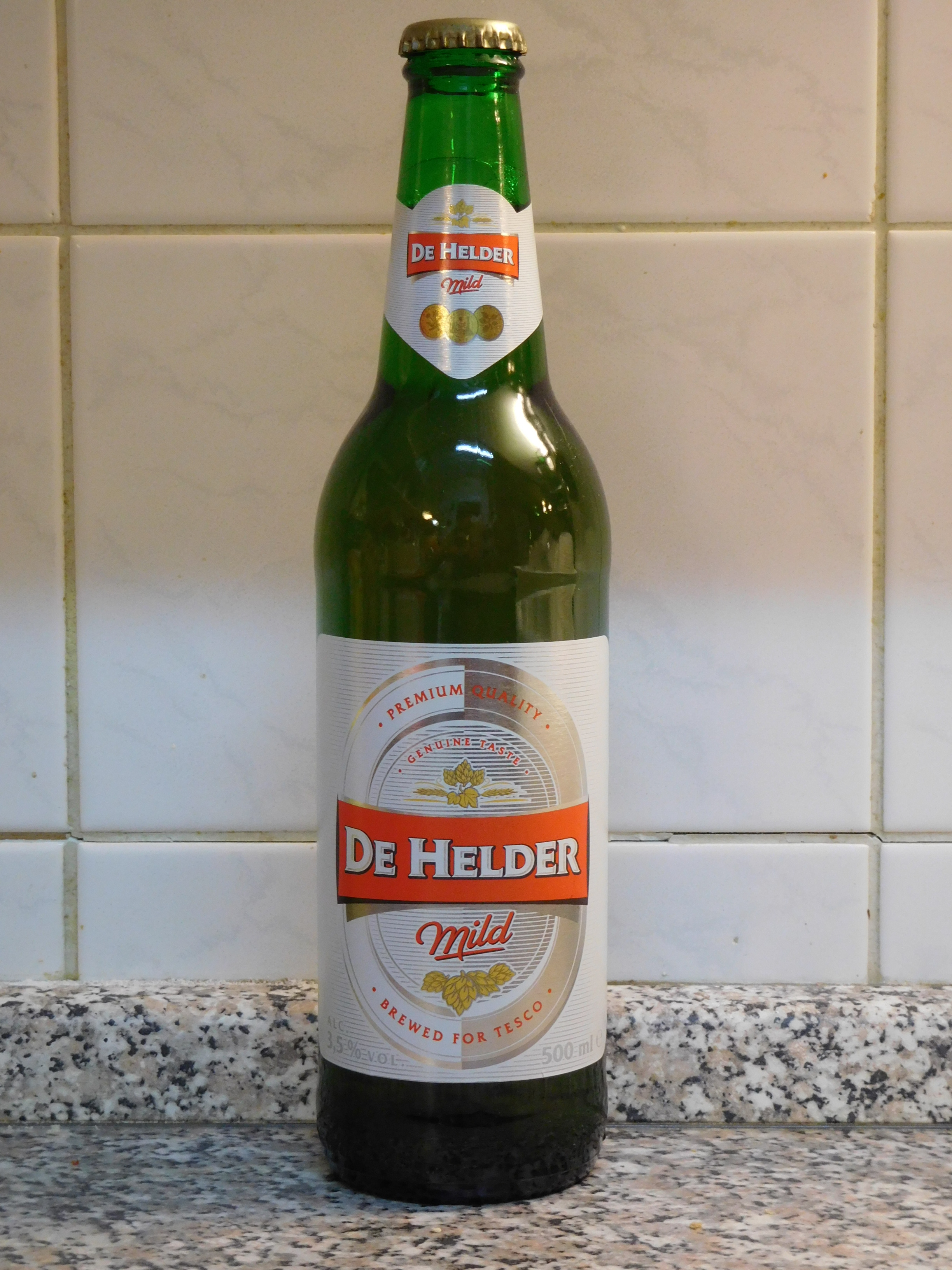 De Helder beer, brewed by Van Pur brewery in Rakszawa